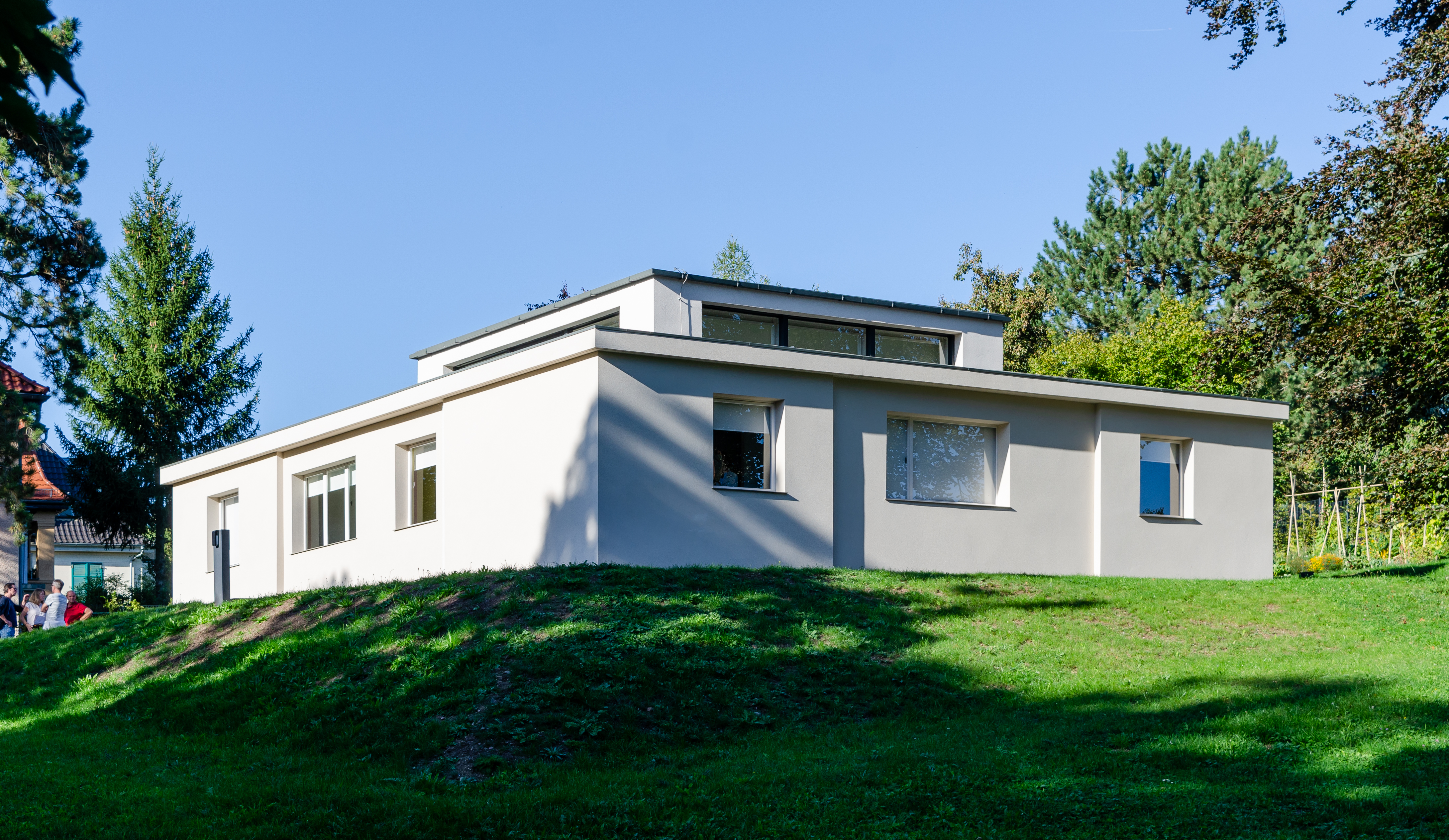 Weimar (Thuringia, Germany) – Haus am Horn – view from the south